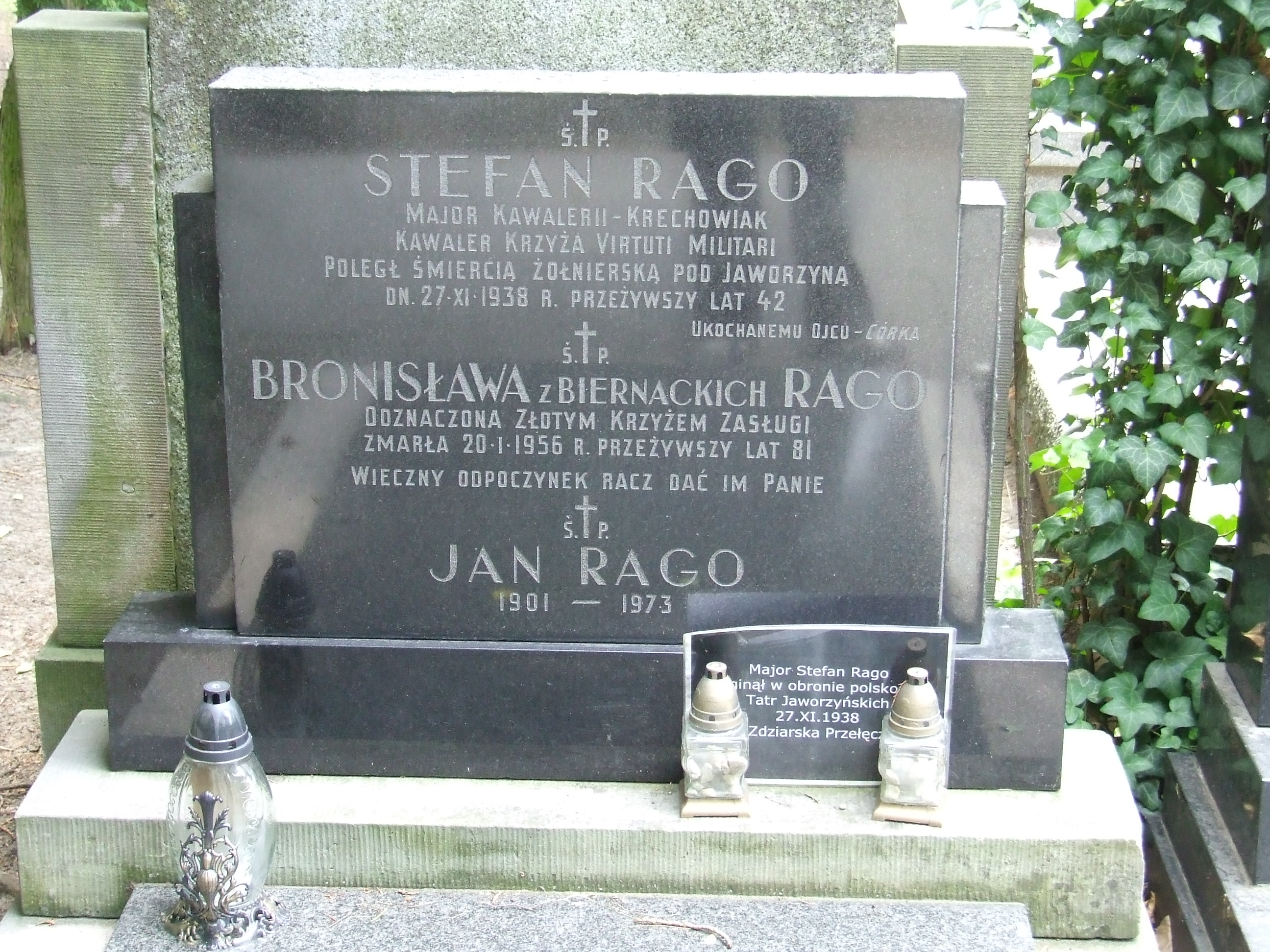 grave of Major Stefan Rago